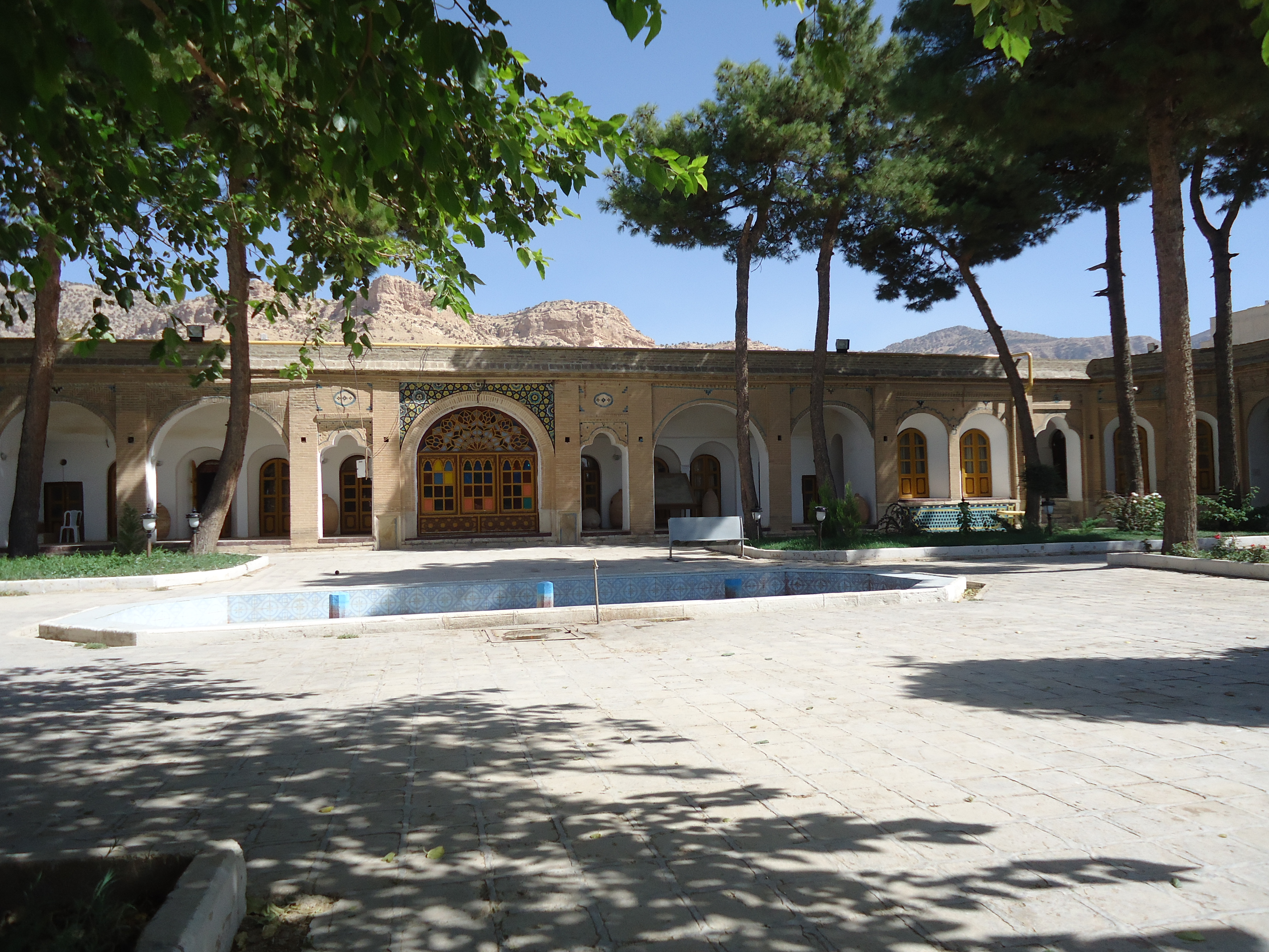 Wali Castle in Ilam district in Iran